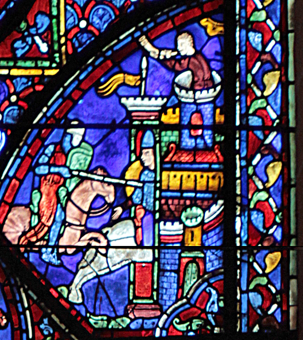 The Legends of Charlemagne (ambulatory, bay 7).